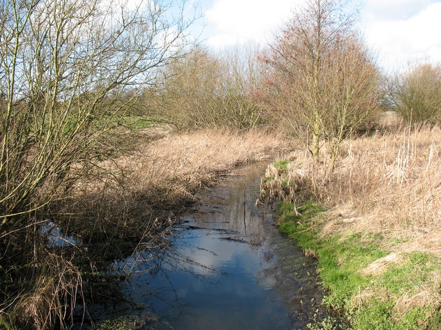 Ouse Gill Beck This insignificant little stream flows for another mile or so before joining the mature River Ure, at which point the Ure becomes the Ouse, continuing on towards York and the Humber.